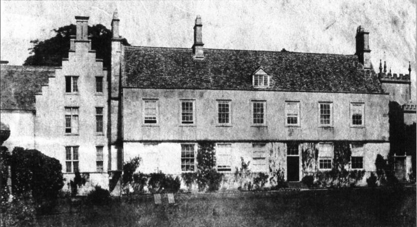 Early photo of The Lower House, Alderley, Gloucestershire after the addition of the 1844 service wing (with its distinctive crow-stepped gable) but before the property's substantial demolition and redesign by Lewis Vulliamy in 1859-63. The photo shows the simplified main range, which when originally built by Sir Matthew Hale in 1656-62 had had nine bays and sported gables at either end with dormer windows in between; in the 18th century the house had been reduced to seven bays by the removal of two bays on the east side, both of the gables and all but the subsequently central dormer.